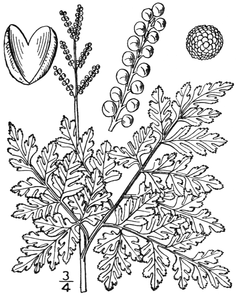 Fig. 14. Botrychium virginianum from the second edition of An Illustrated Flora of the Northern United States, Canada and the British Possessions (New York, 1913)